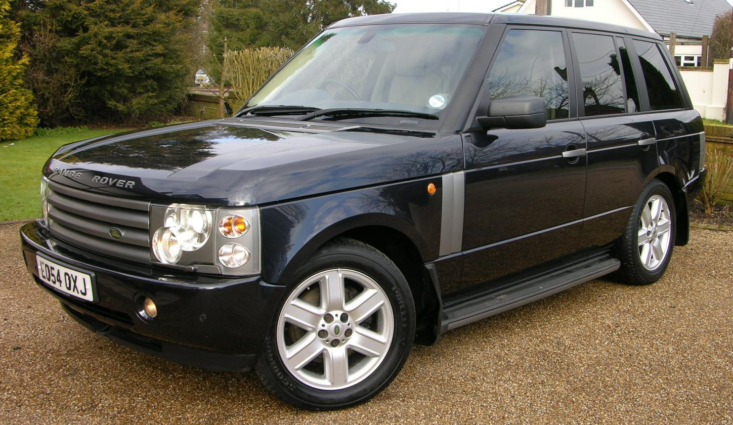 2004 Range Rover V8 Vogue